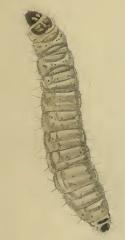 Stainton’s Natural History of the Tineina (1855–1873): Thiotricha subocellea